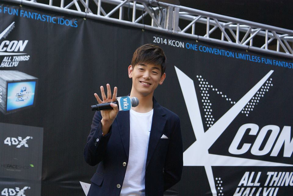 Eric Nam during KCON (music festival), 2014